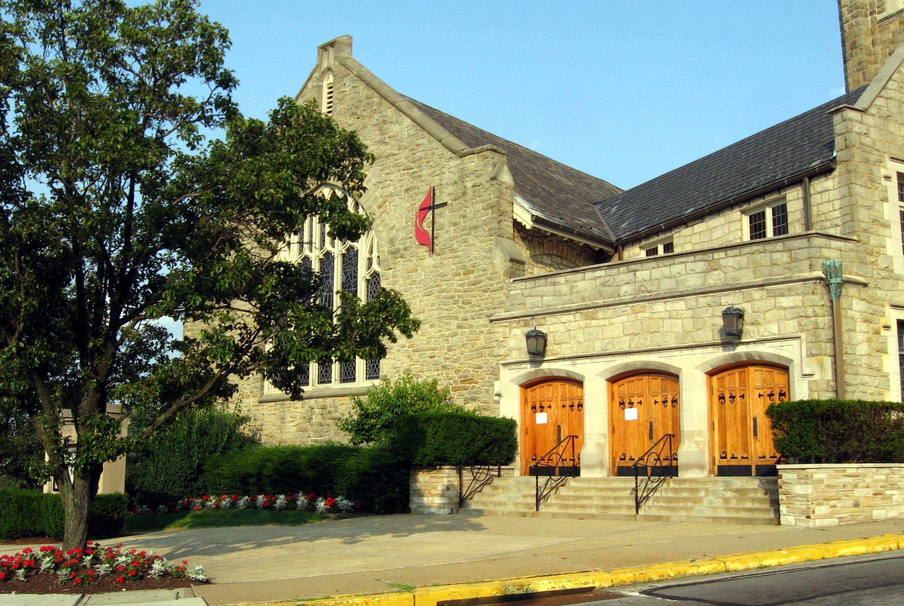 Looking east at United Methodist Church of Mt. Lebanon, Pennsylvania on a sunny afternoon.